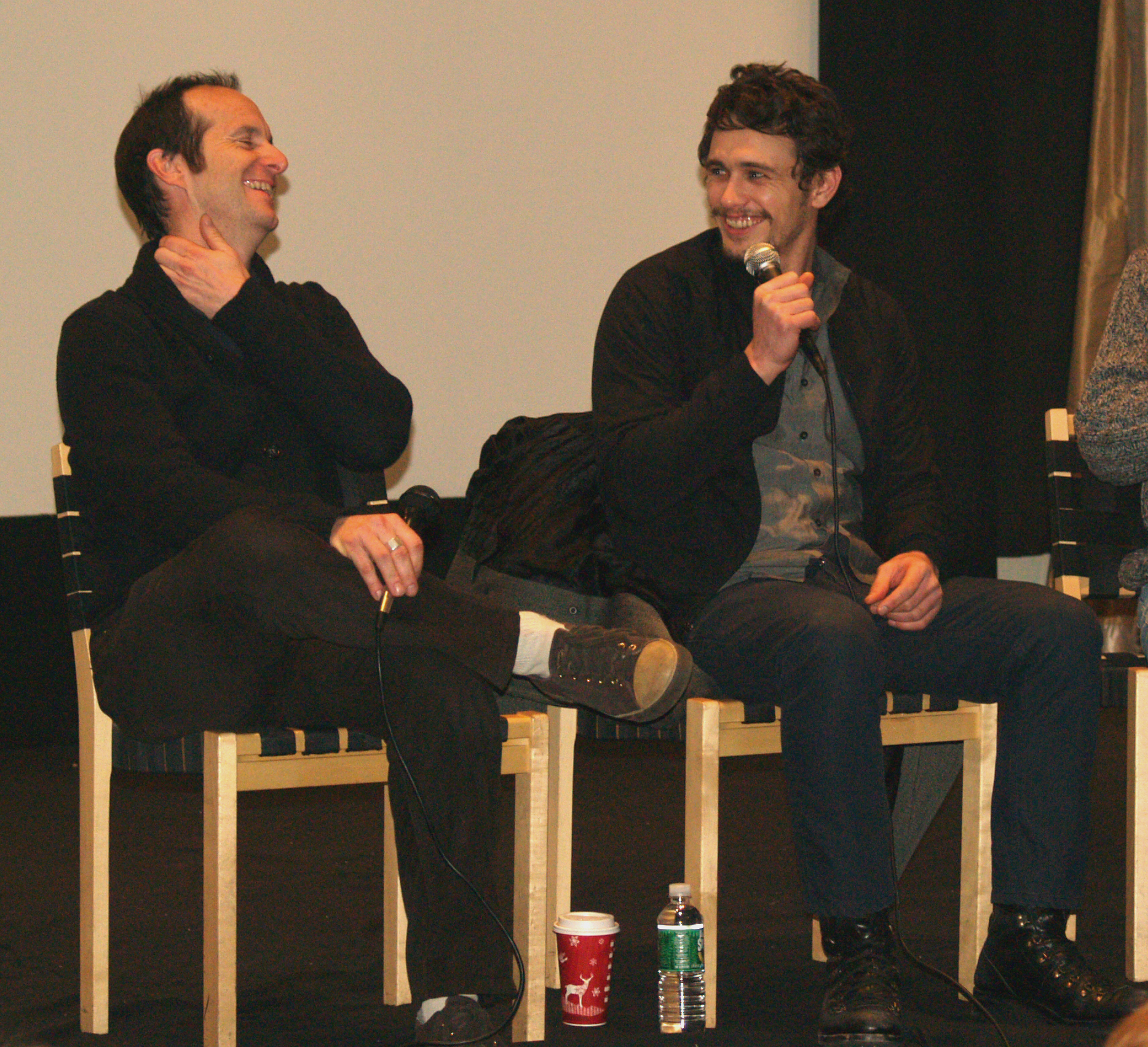 Denis O'Hare and James Franco discussing the film Milk about Harvey Milk. Photographer's blog post about the event in the photo.